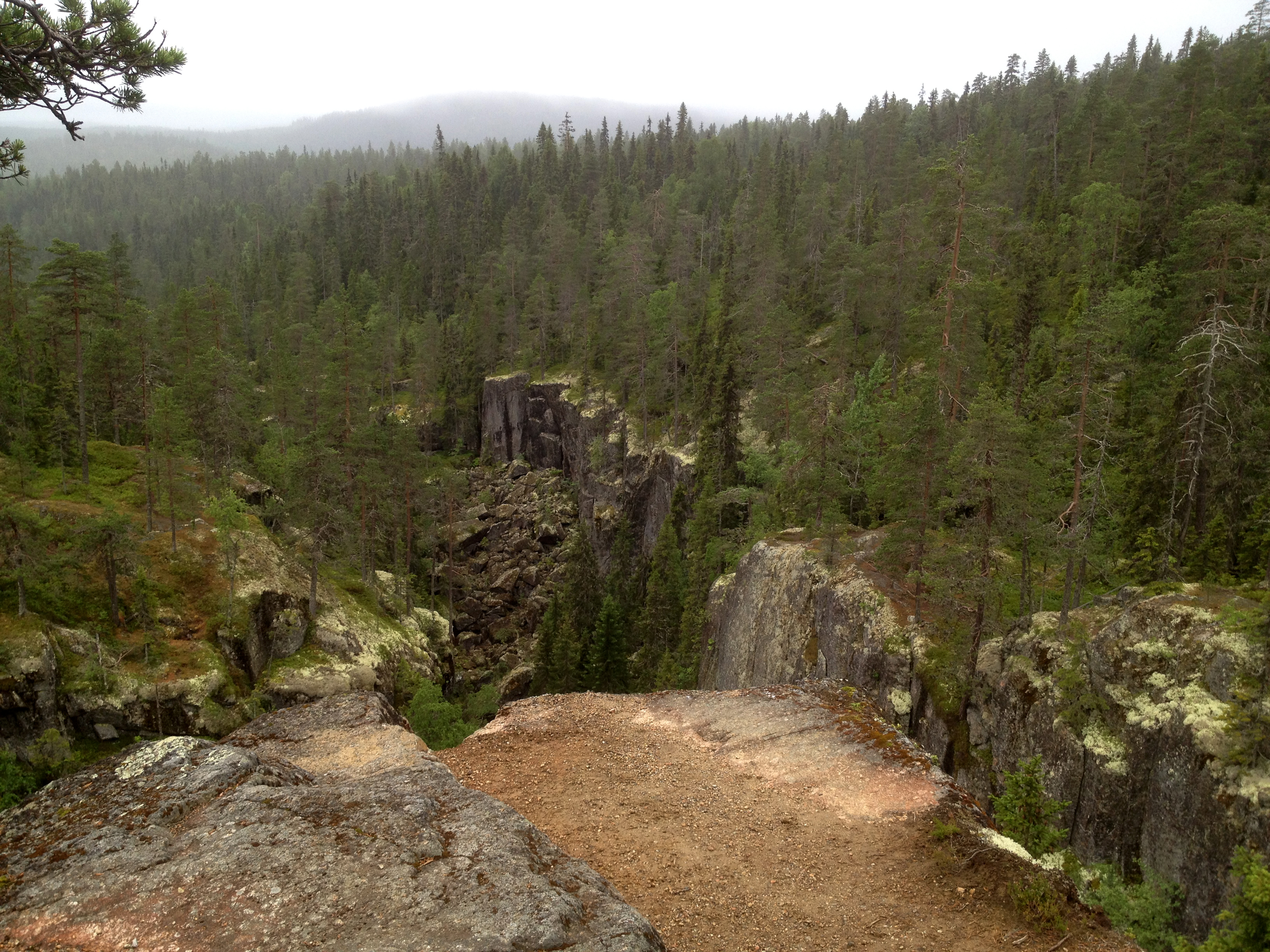 View over the Stockholmsgata canyon